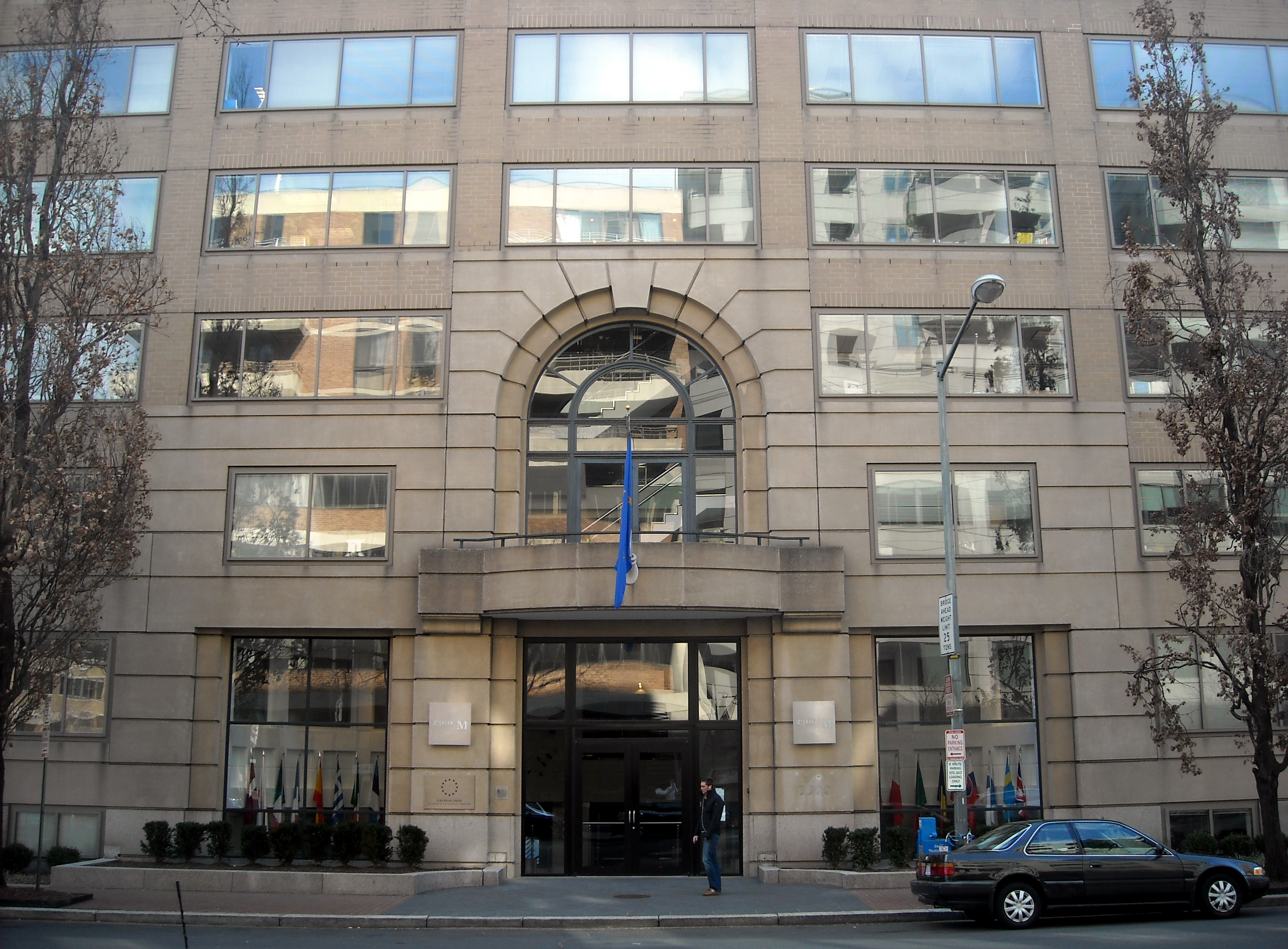 The office building located at 2300 M Street, NW in the West End neighborhood of Washington, D.C. Former tenants include the European Union Delegation.